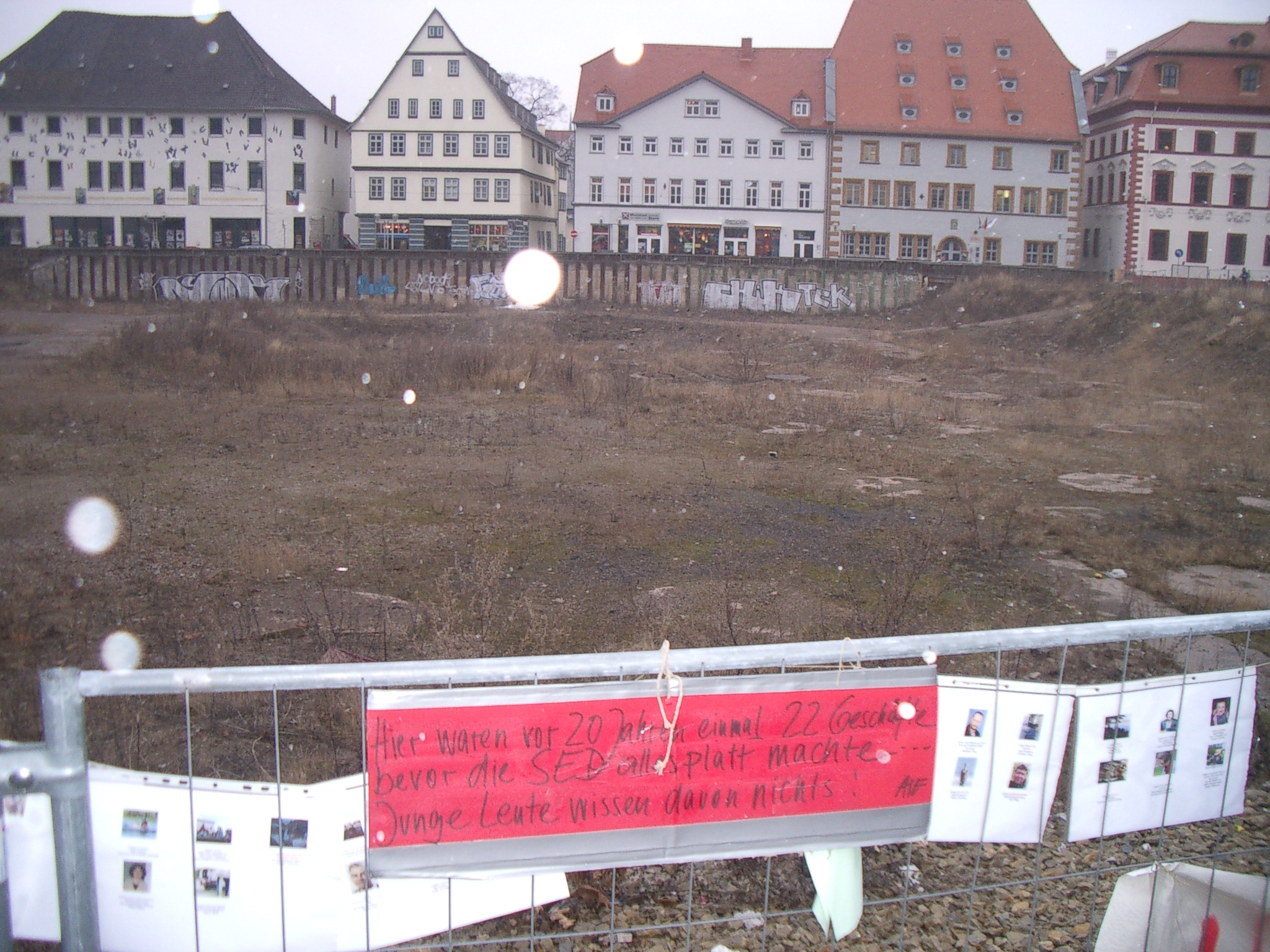 Excavation Pit Hirschgarten Erfurt in 2005